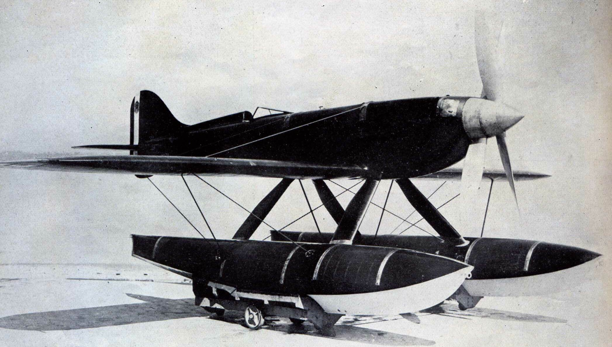 Sea Plane Manufactured by Macchi, which Establishded the New Speed Record.